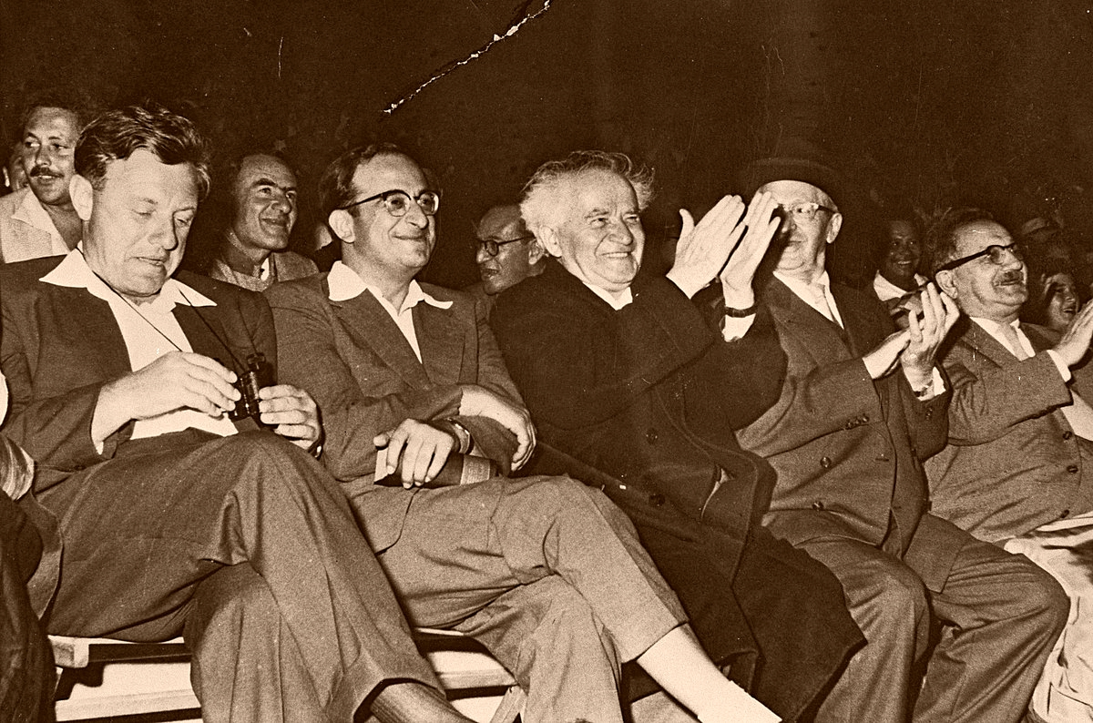 Prime Minister David Ben-Gurion with his personal secretary Yitzhak Navon and Teddy Kollek (left). President Yitzhak Ben-Zvi and Knesset Speaker Yosef Sprinzak (right) attend the first Bible Quiz. Photograph.